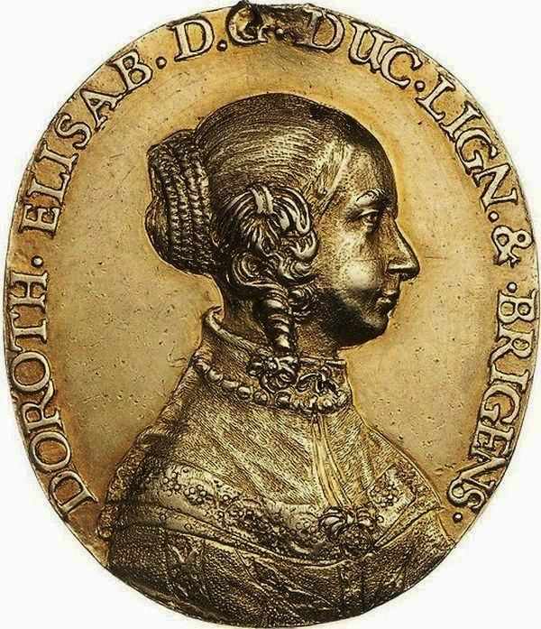 Medal commemorating the marriage of Henry of Nassau-Dillenburg and Duchess Dorothea Elisabeth of Liegnitz-Brieg (Legnica-Brzeg)